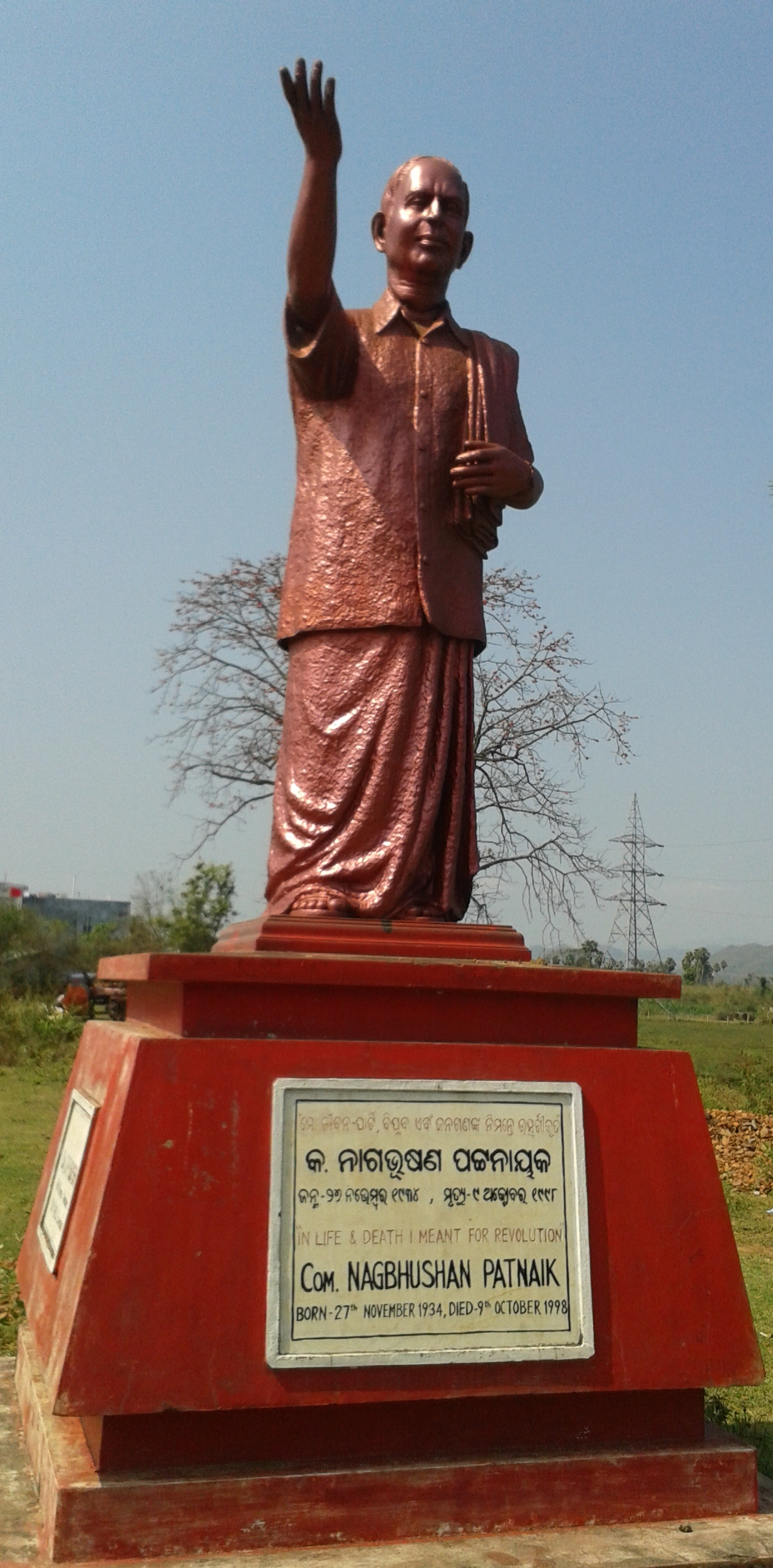 Nagbhushan Patnaik, politburo member,CPIML